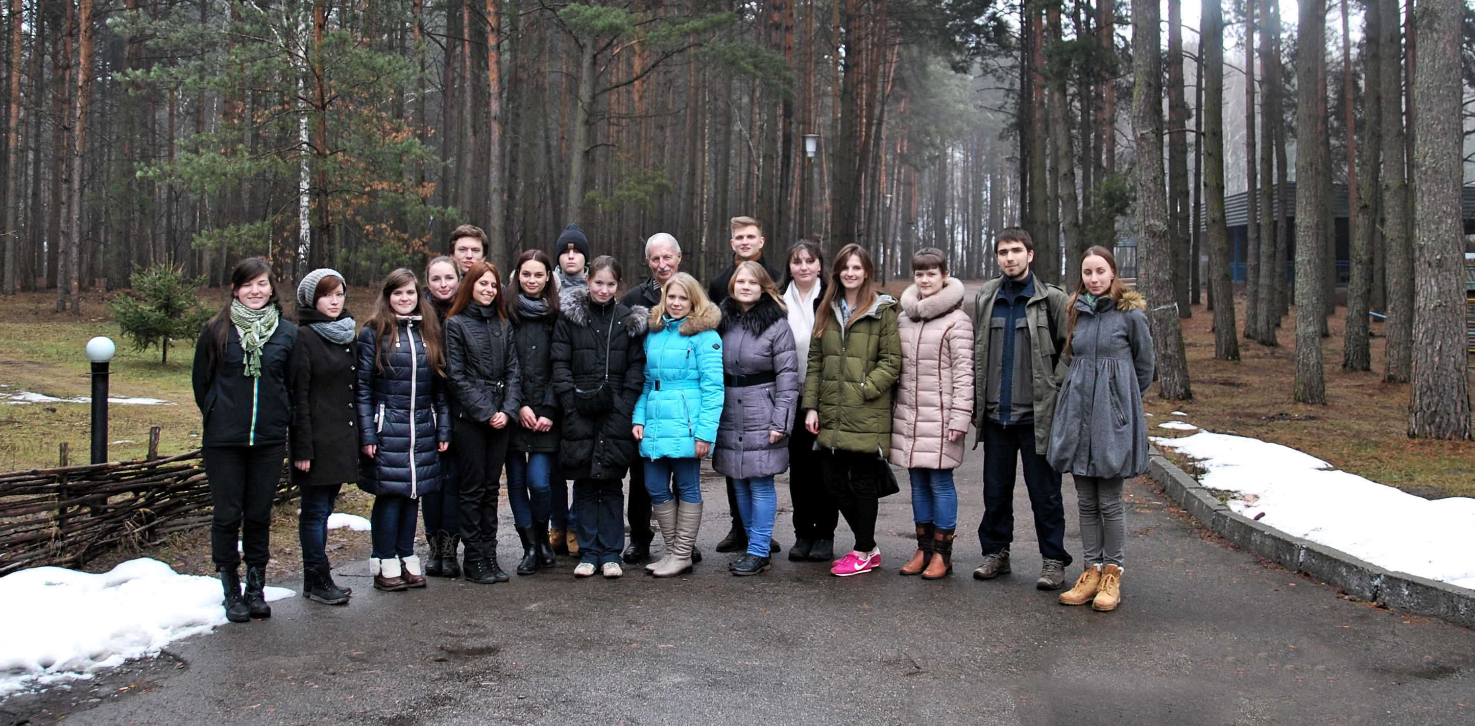 Зимняя школа Фолькера Ронге в Киеве, 2015 год.